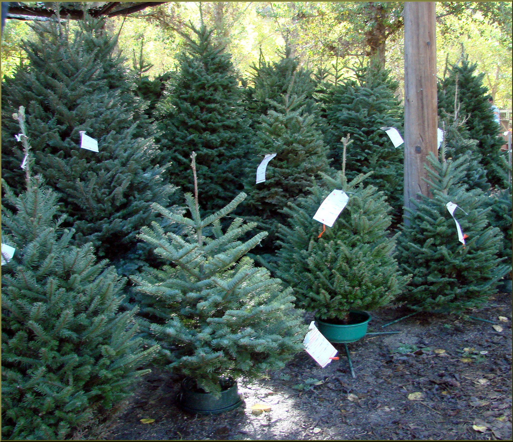 (1 in a multiple picture set) These trees were tagged and awaiting some family to take them home. The lucky ones will be trimmed and get to enjoy the sounds of joy as the family gathers around them on Christmas morning.